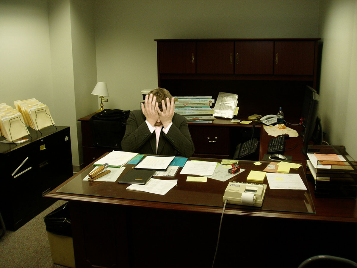 A frustrated man sitting at a desk.